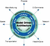 Model_driven_architecture